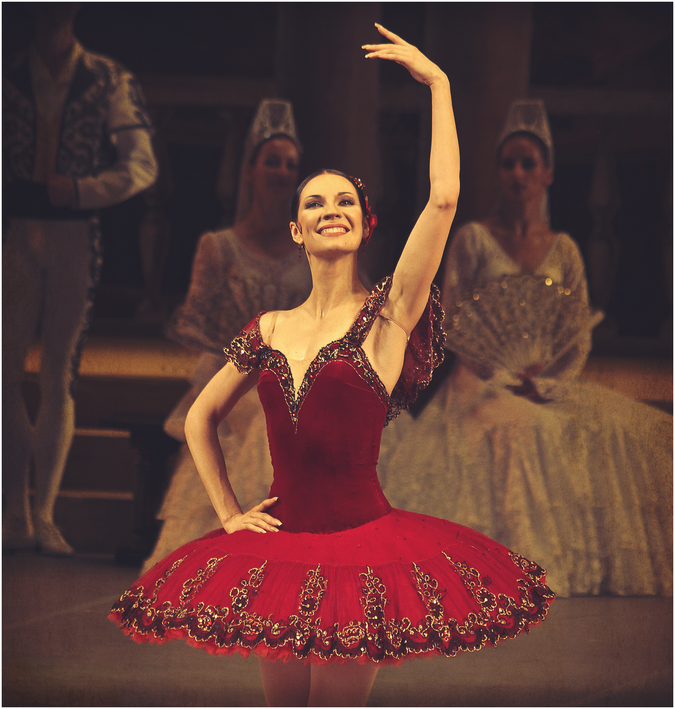 Maria Alexandrova in Don Quixote, Bolshoi theater